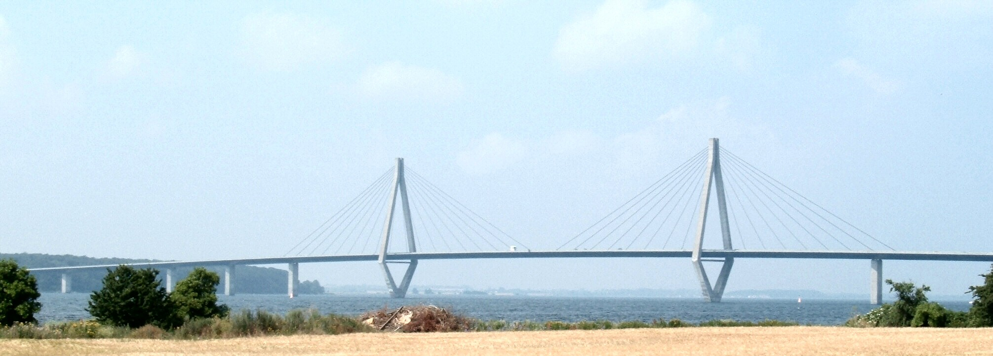 Southern section of Farø Bridge from the island of Farø to Falster in south eastern Denmark. View from neighouting island showing diamond construction of pylons and single row of cabling. Taken by contributor July 2006